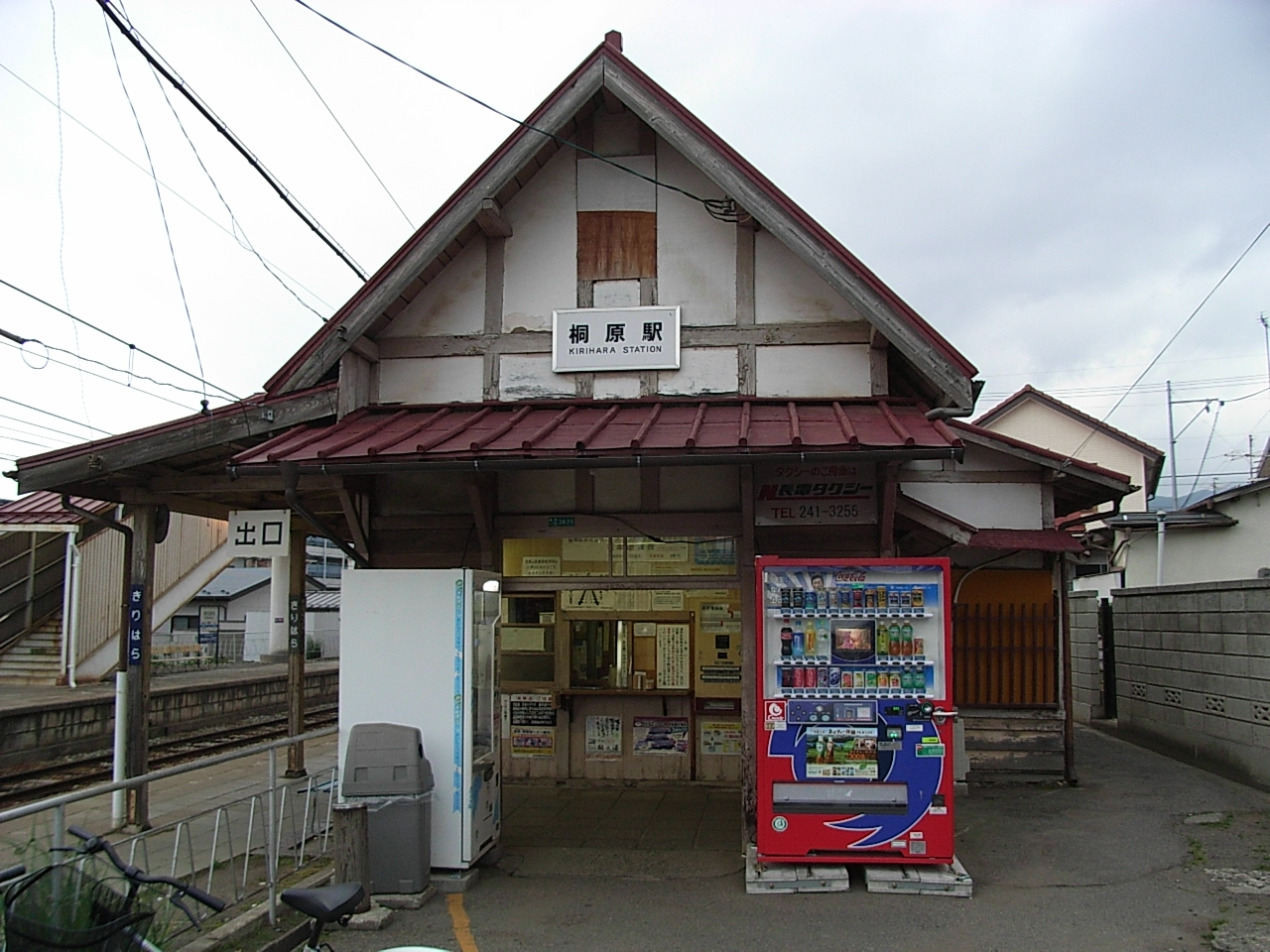 Kirihara Station on Nagano Electric Railway Nagano Line. (24-21,Kirihara 1-chome,Nagano-shi,Nagano-ken,JAPAN)